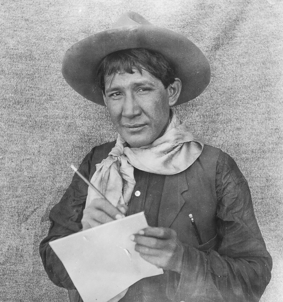 Ernest Spybuck, Absentee Shawnee Artist, ca. 1910. Photo taken during fieldwork sponsored by George Heye.